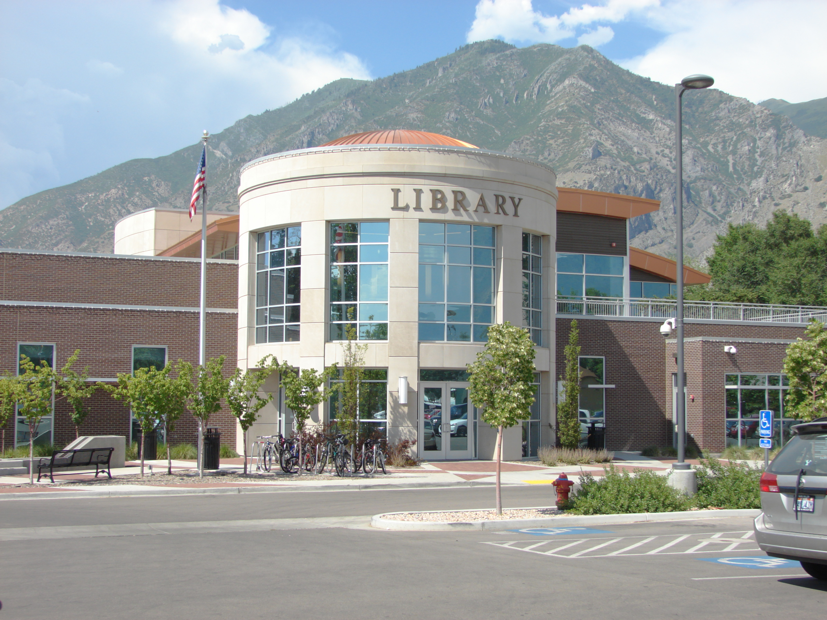 A front view of the public library in Springville, Utah, June 2015